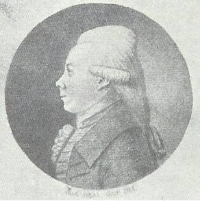 Otto Lindegaard (1792-1875), Danish landowner